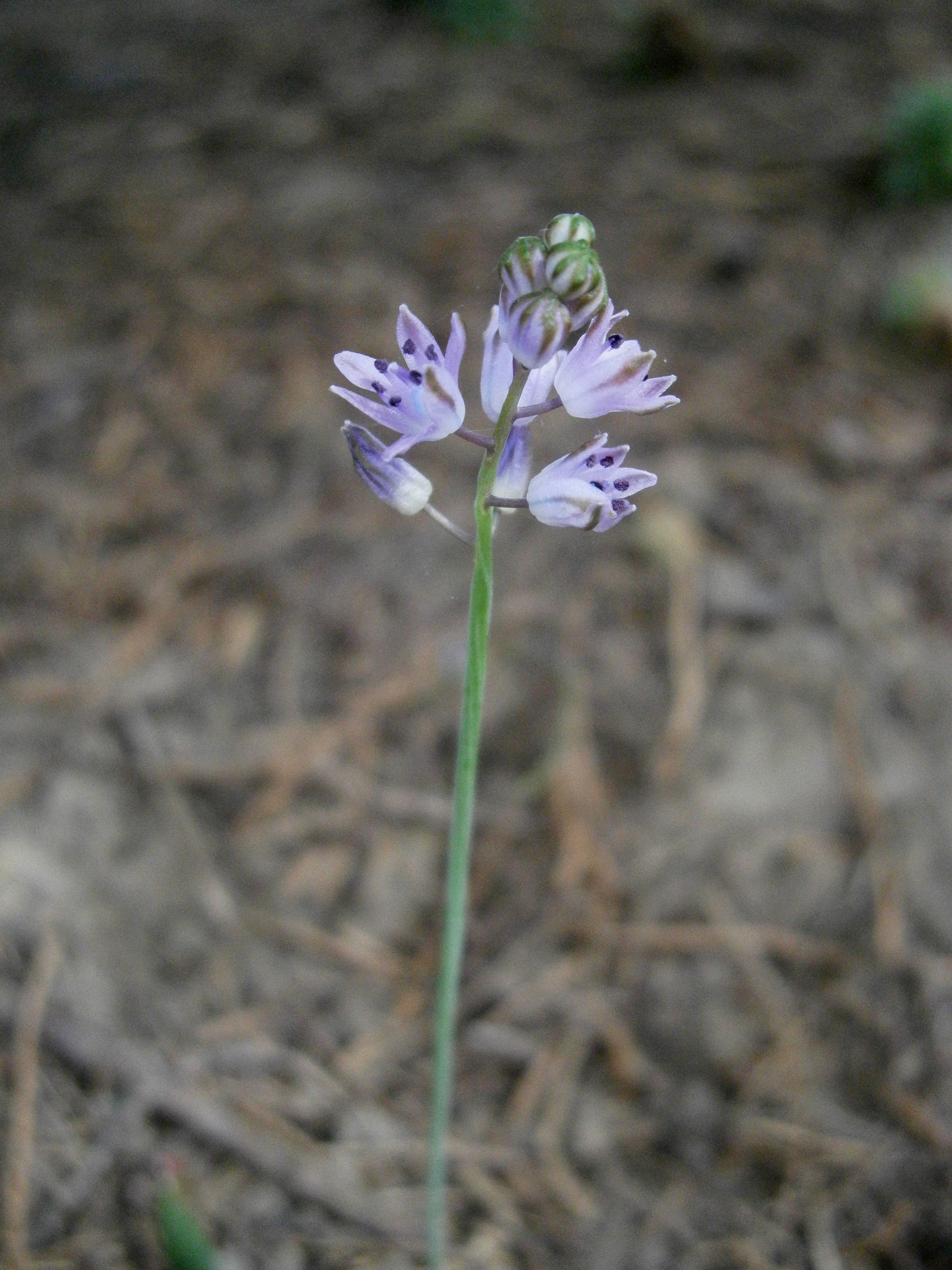 Prospero autumnale (Syn. Scilla autumnalis)